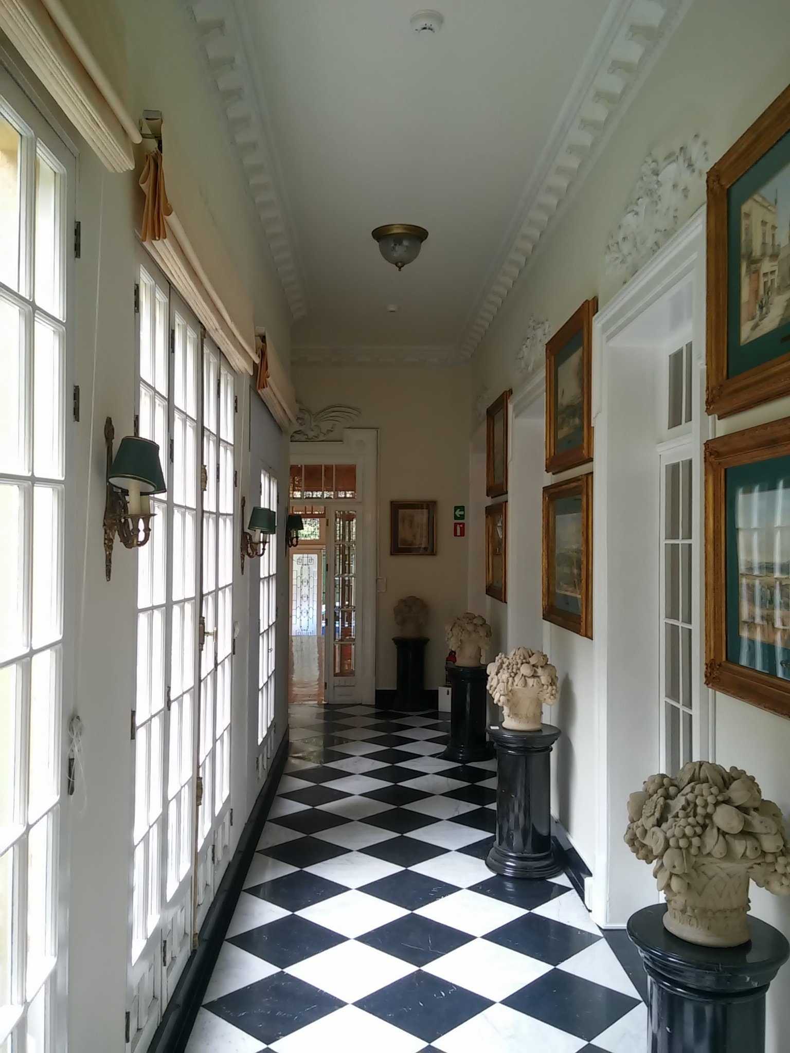 Pasilo de la casa de Guillermo Tovar y de Teresa en la Colonia Roma